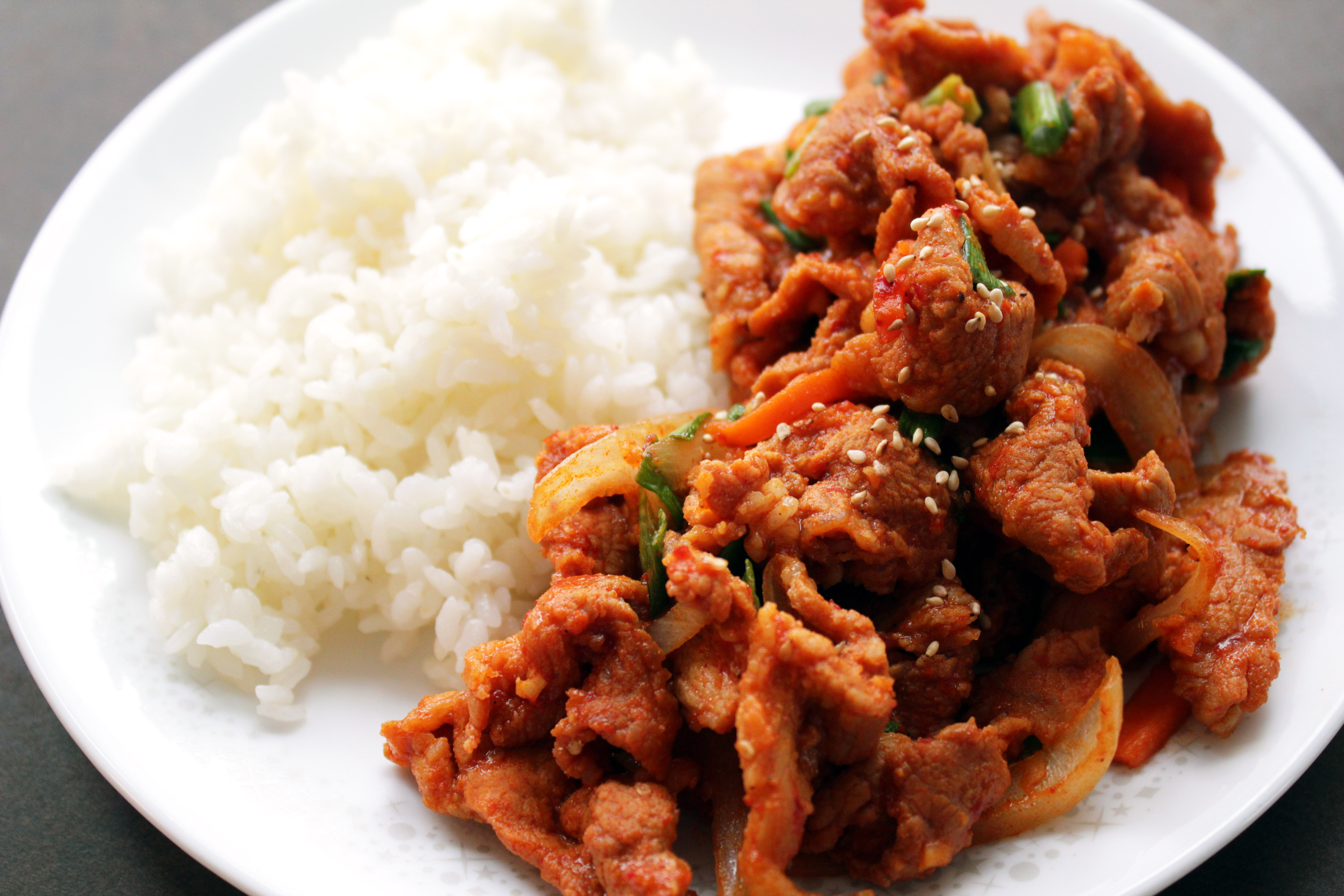 spicy pork bulgogi and rice